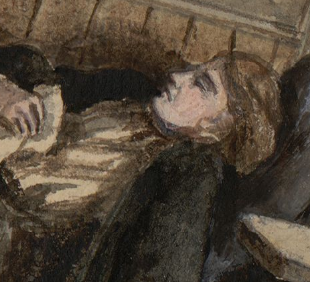 Frances Elizabeth Wynne. Selfportrait. Cropped for WD: File:DV307 no.12 On board the Prince Frederick William, Ostend to Dover 25 Aug 1858.png